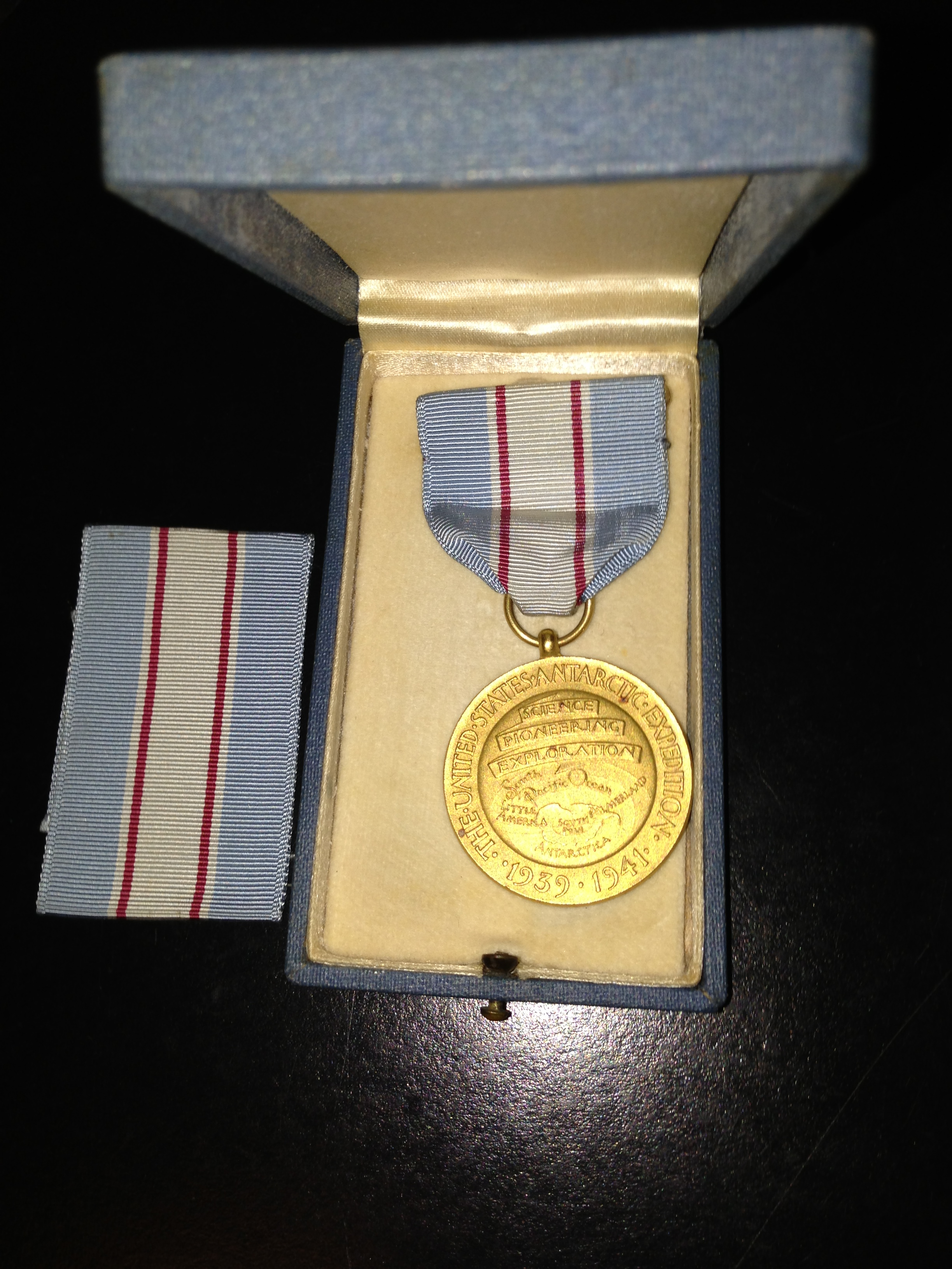 Congressionally authorized gold medal for the United States Antarctic Expedition led by Admiral Byrd, 1939-1941